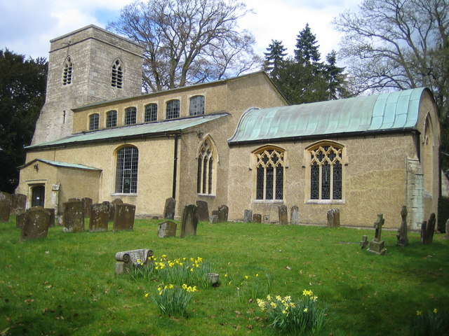 Church of England parish church of the Assumption of the Blesséd Virgin Mary, Stowe, Buckinghamshire